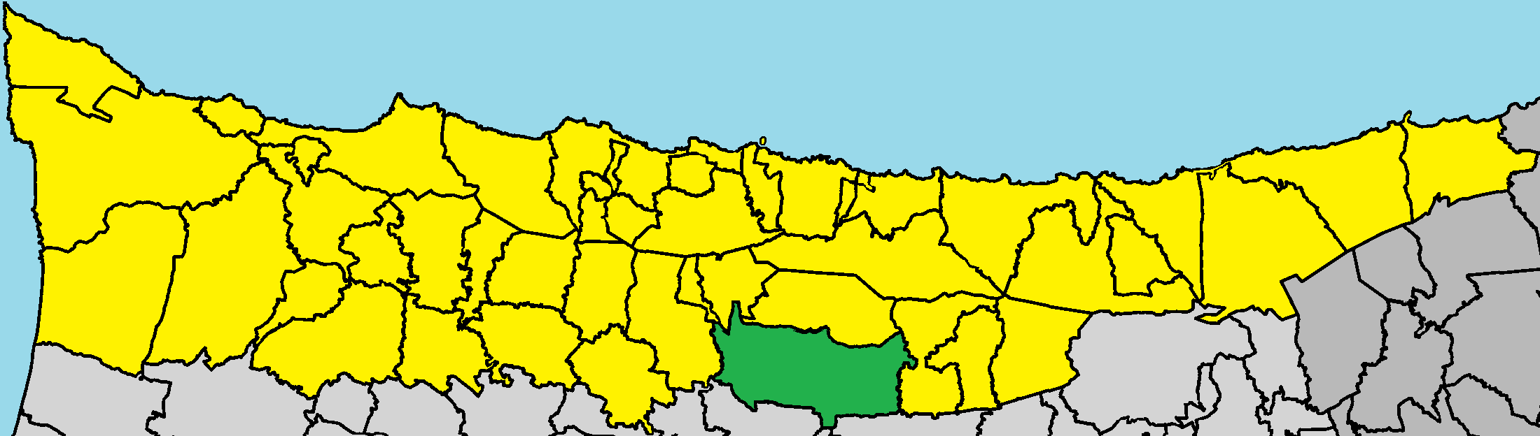 Kato Dikomo in Kyrenia District (de jure).